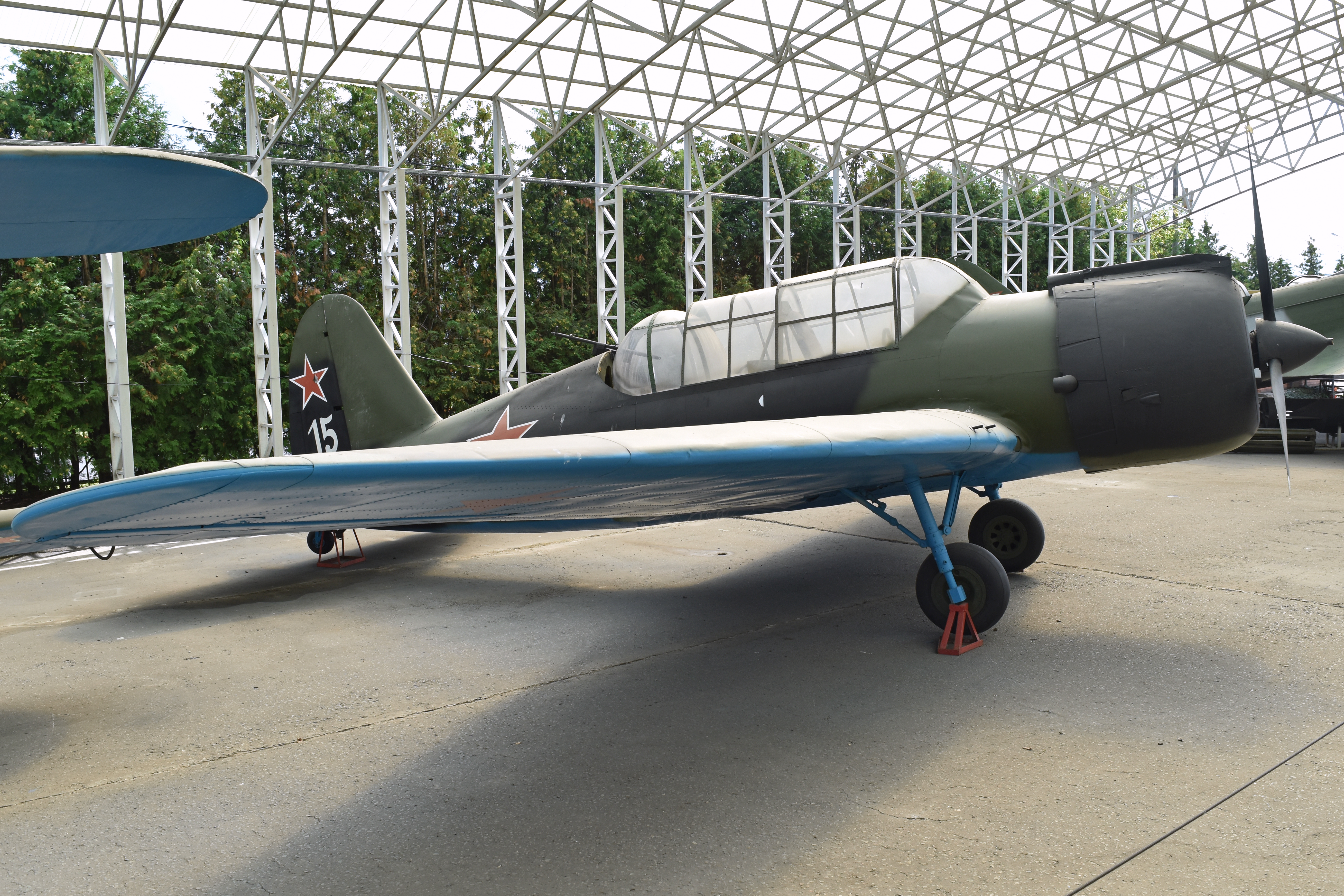 Although obviously a mock-up, this exhibit may well include some original components sourced from crash sites. On display in ‘Victory Park’, Museum of the Great Patriotic War, Poklonnaya Hill, Moscow, Russia. 26th August 2017